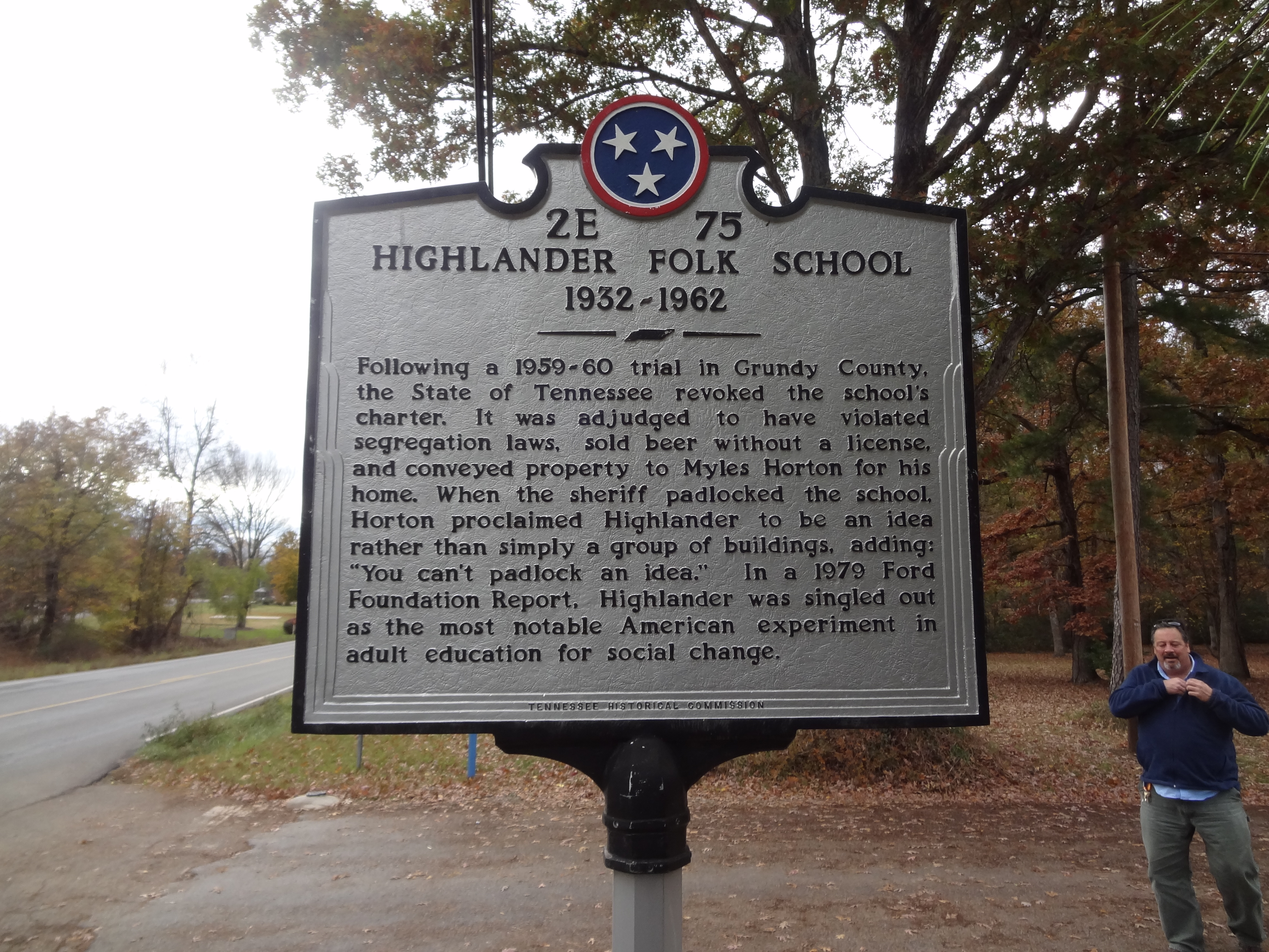 (Front) 2E 75 HIGHLANDER FOLK SCHOOL 1932-1962 In 1932, Myles Horton and Don West founded Highlander Folk School, located ½ mile north of this site. It quickly became one of the few schools in the South committed to the cause of organized labor, economic justice, and an end to racial segregation. Courses included labor issues, literacy, leadership, and non-violent desegregation strategies, with workshops led by Septima Clark. The Rev. Dr. Martin Luther King, Jr., Rosa Parks, John Lewis, and Eleanor Roosevelt found inspiration for the modern civil rights movement there. Opponents of its causes tried to close the school. Continued (Back) Following a 1959-1960 trial in Grundy County, the State of Tennessee revoked the school’s charter. It was adjudged to have violated segregation laws, sold beer without a license, and conveyed property to Myles Horton for his home. When the sheriff padlocked the school, Horton proclaimed Highlander to be an idea rather than simply a group of buildings, adding “You can’t padlock an idea.” In a 1979 Ford Foundation Report, Highlander was singled out as the most notable American experiment in adult education for social change. Tennessee Historical Commission